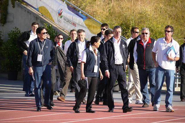 IOC Evaluation Commission in Madrid.(ATR/Panasonic: Lumix)